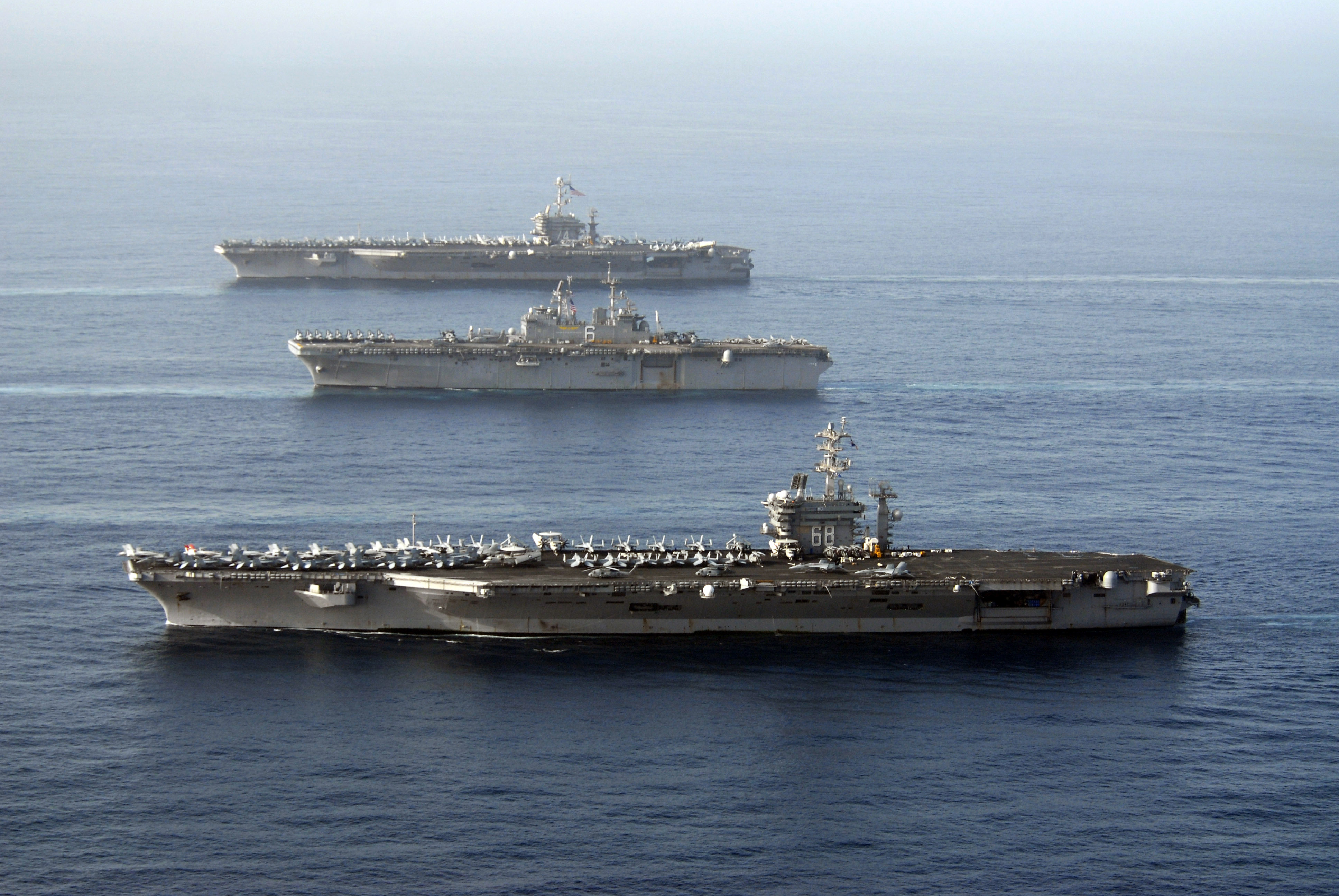 ARABIAN SEA (May 22, 2007) - (from foreground) USS Nimitz (CVN 68), USS Bonhomme Richard (LHD 6) and USS John C. Stennis (CVN 74) transit the Gulf of Oman. The three ships are flagships for three different strike groups; the Nimitz Carrier Strike Group, Bonhomme Richard Expeditionary Strike Group, and the John C. Stennis Carrier Strike Group, which are on regularly, scheduled deployments in support of Maritime Operations. Maritime Operations help set the conditions for security and stability, as well as complement counter-terrorism and security efforts to regional nations. U.S. Navy photo by Mass Communication Specialist 1st Class Denny Cantrell (RELEASED)